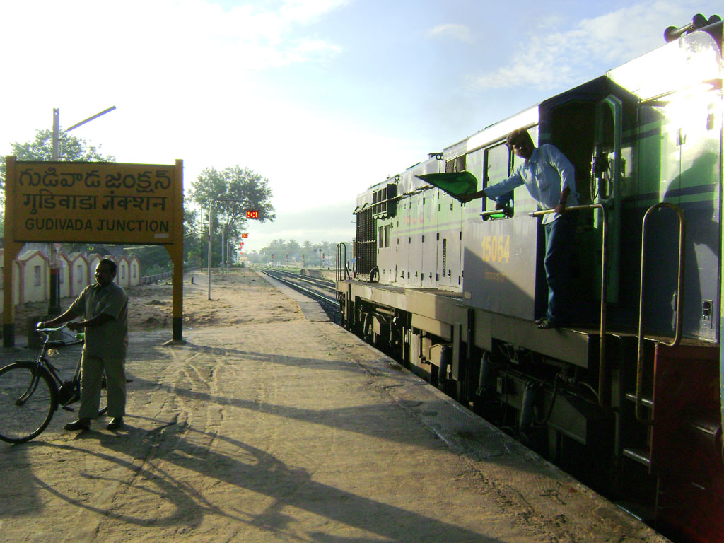 17050 SC-MTM Machilipatnam Express at departs from Gudivada JN